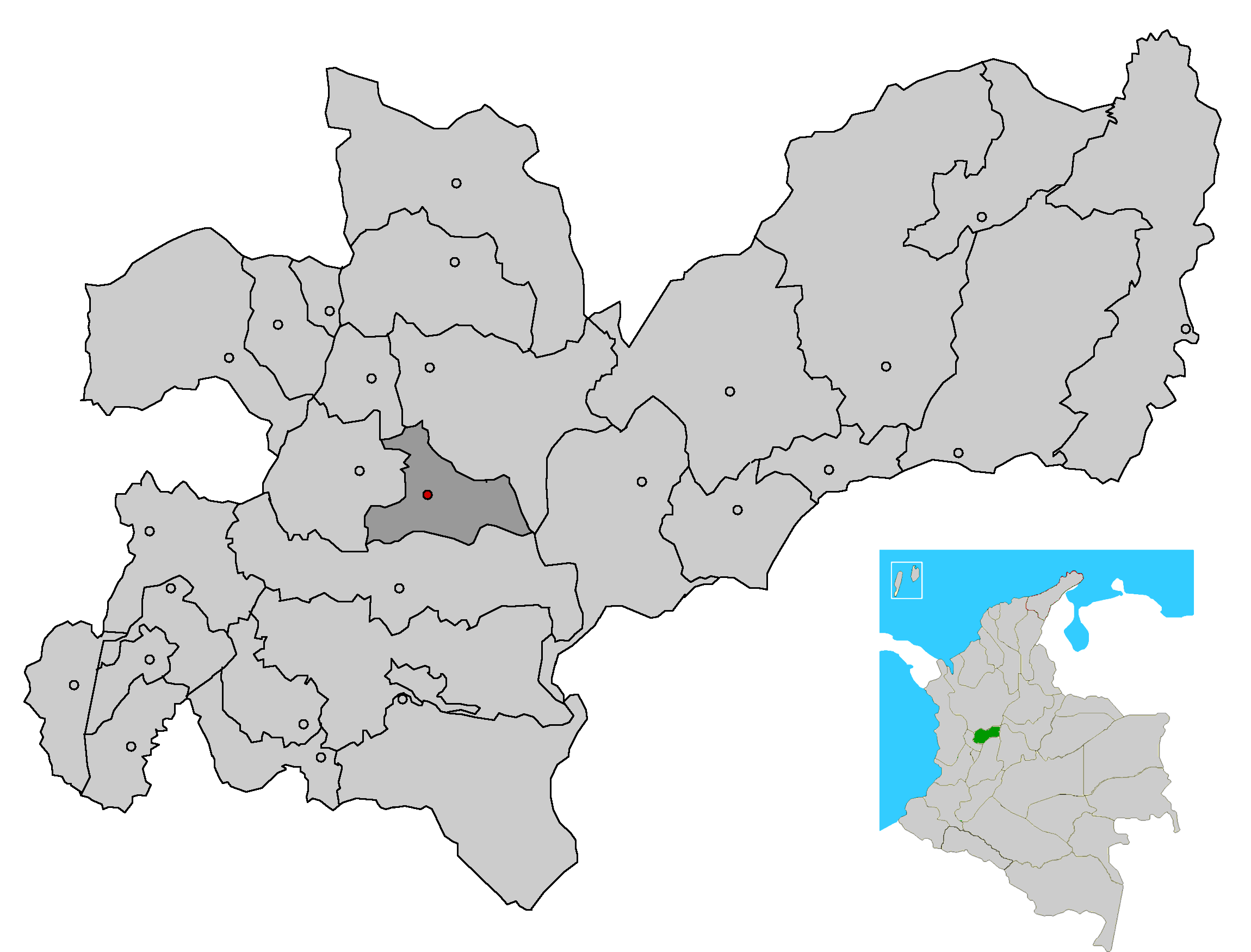 Image depicting map location of the town and municipality of Aranzazu in Caldas Department, Colombia